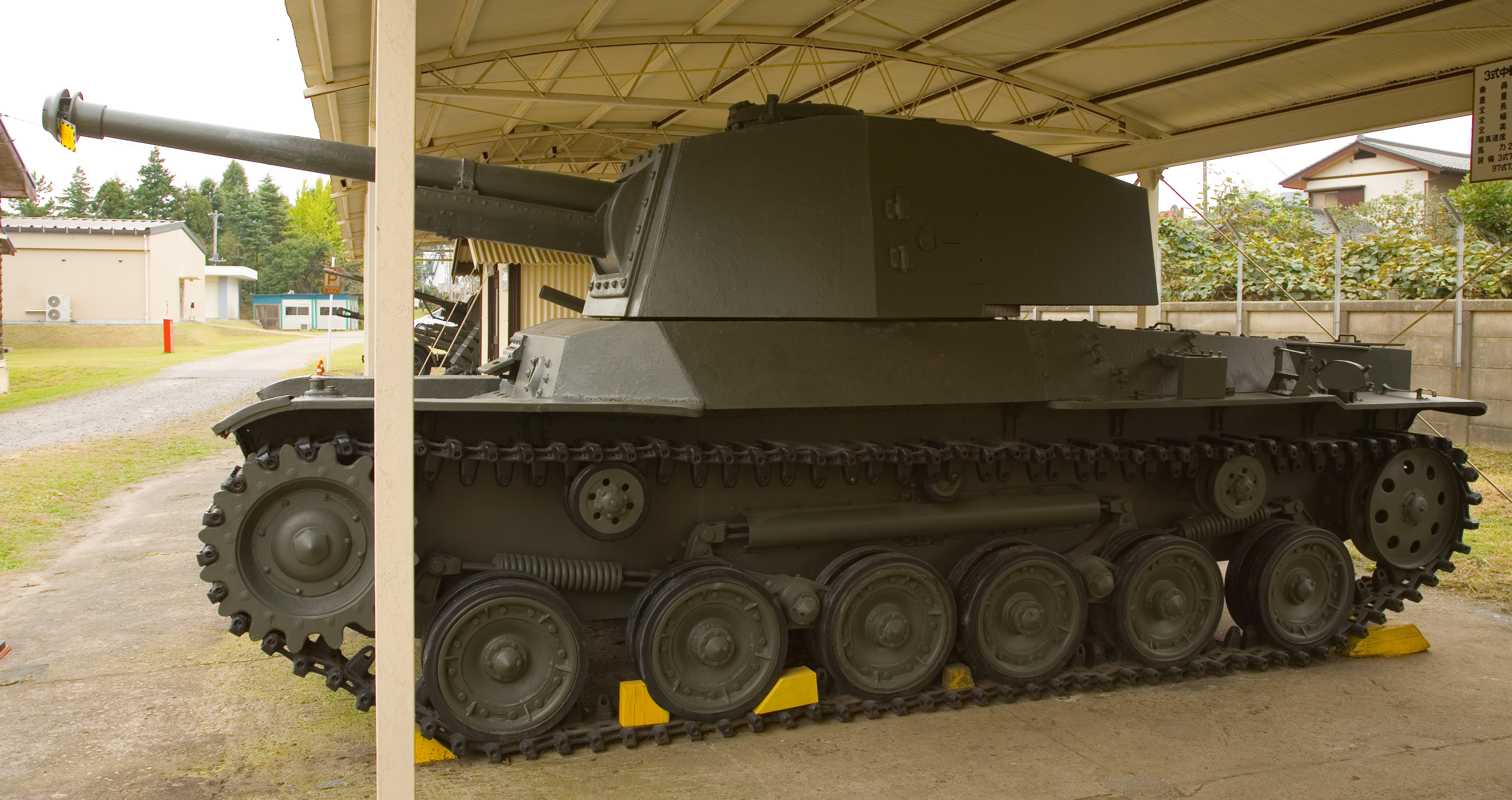 A Japanese World War II era Type 3 "Chi-Nu" Medium Tank at the JGSDF Ordnance School in Tsuchiura, Kanto, Japan.